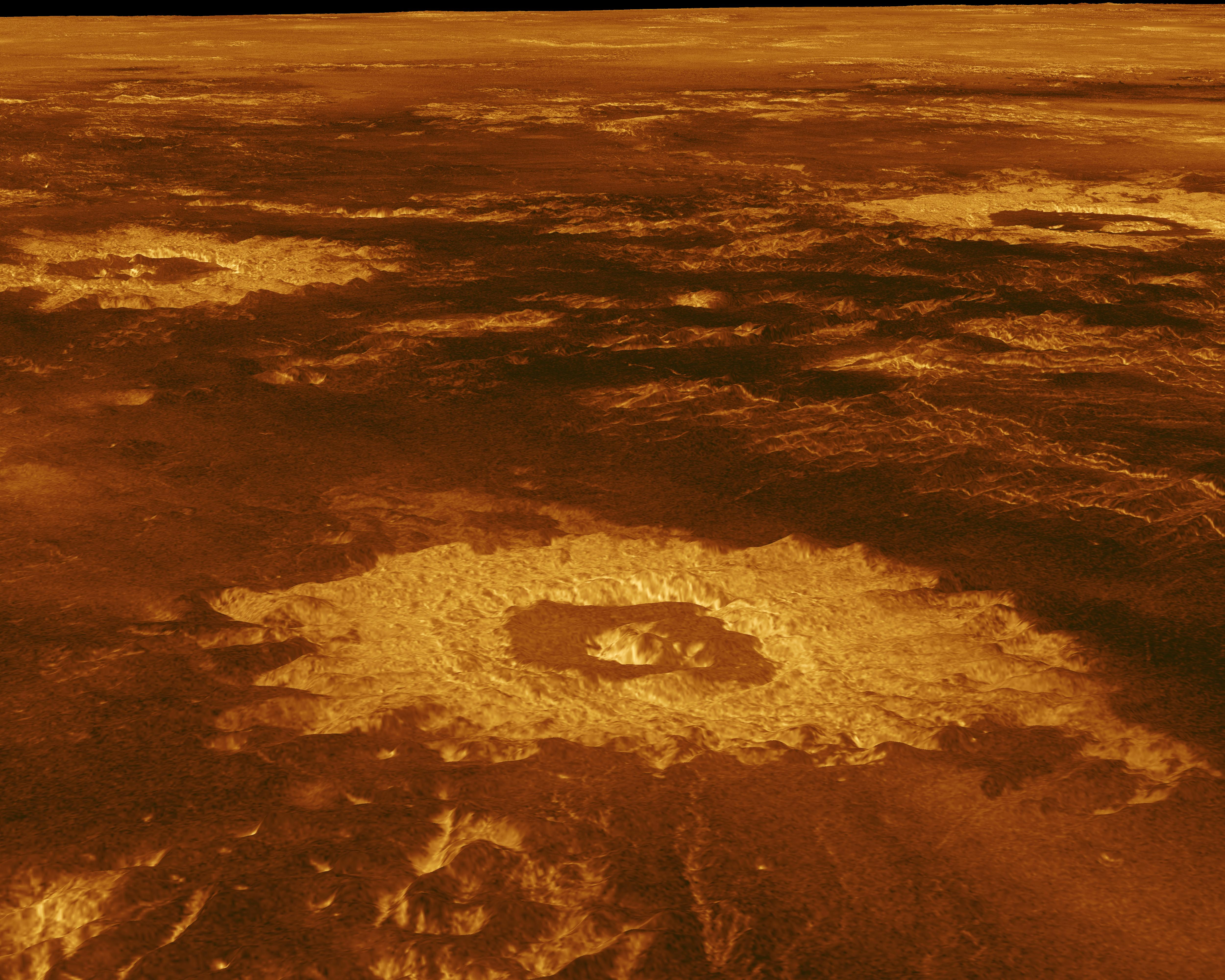 Three impact craters are displayed in this three-dimensional perspective view of the surface of Venus. The center of the image is located at approximately 27 degrees south latitude, 339 degrees east longitude in the northwestern portion of Lavinia Planitia. The viewpoint is located southwest of Saskia Crater (see [1]), which appears centered in the lower portion of the image. Saskia is a crater with a diameter of 37.3 kilometers (23.1 miles) located at 28.6 degrees south latitude, 337.1 degrees east longitude. Danilova, a crater with a diameter of 47.6 kilometers (29.5 miles), located at 26.35 degrees south latitude, 337.25 degrees east longitude, appears above and to the left of Saskia in the image. Aglaonice, a crater with a diameter of 62.7 kilometers (38.9 miles), located at 26.5 degrees south latitude, 340 degrees east longitude, is shown to the right of Danilova. Magellan synthetic aperture radar data is combined with radar altimetry to develop a three-dimensional map of the surface. Rays cast in a computer intersect the surface to create a three-dimensional perspective view. Simulated color and a digital elevation map developed by the U.S. Geological Survey are used to enhance small-scale structure. The simulated hues are based on color images recorded by the Soviet Venera 13 and 14 spacecraft.